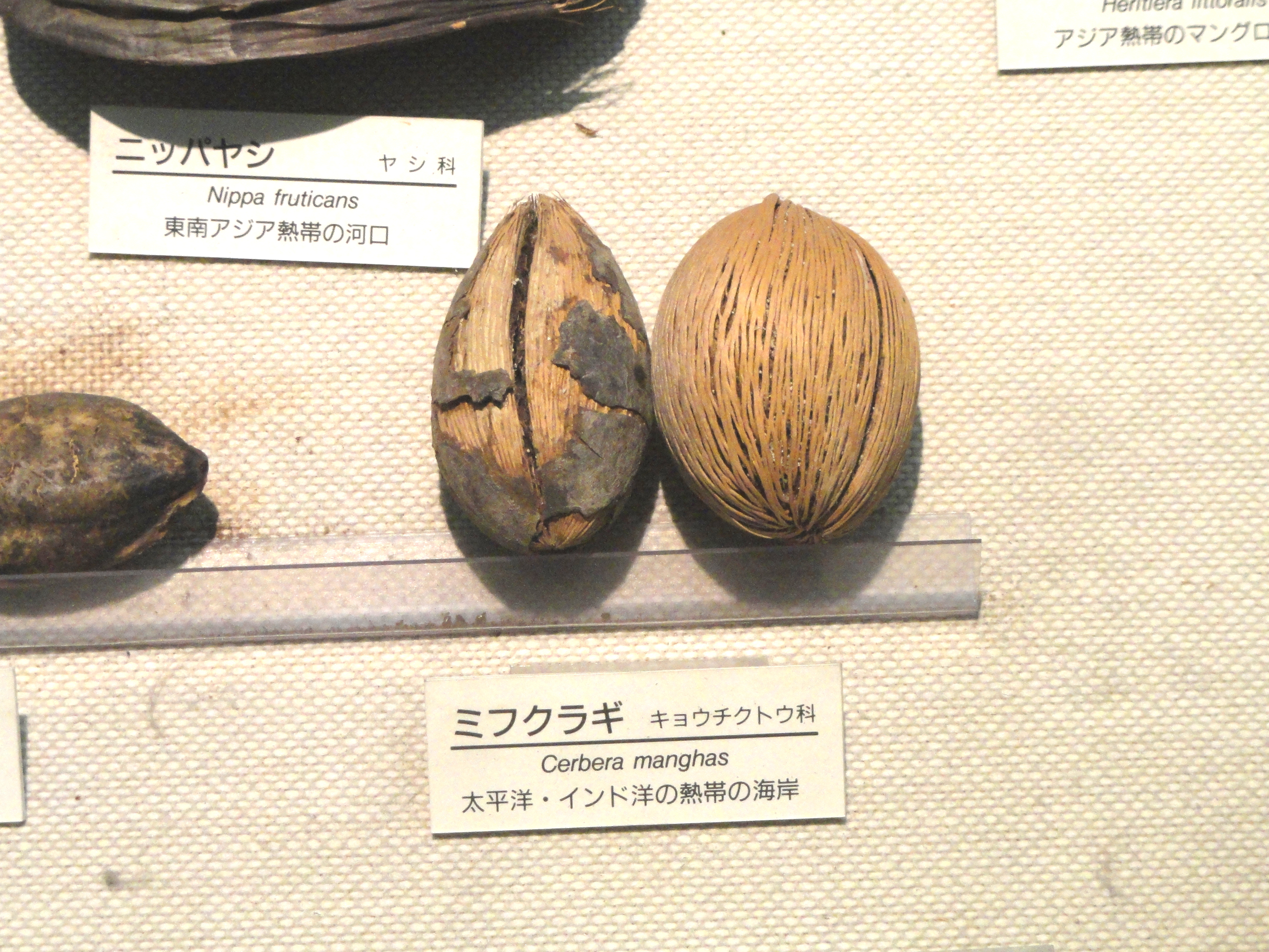 Exhibit in the Osaka Museum of Natural History, Osaka, Japan.